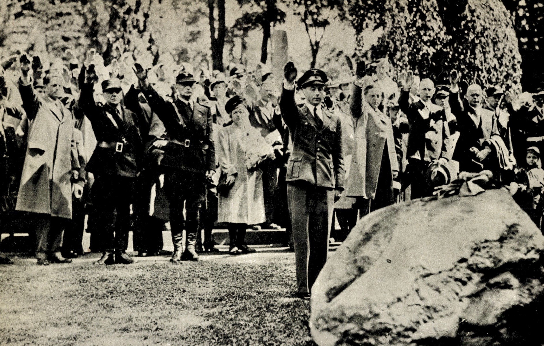 Photo from "Liv i kamp for Norge" ("Marie og Gulbrand Lunde Et liv i kamp for Norge"), a memorial book about Norwegian couple Marie (1907–1942) and Gulbrand Lunde (politician, 1901–1942), published by "Rikspropagandaledelsen" (propaganda department of Nasjonal Samling, Norwegian fascist party 1933–1945) and "Blix forlag" in Oslo, Norway 1942. Cropped JPG from PDF (a low resolution digitized version) of the book downloaded from National Library of Norway's site NO-OsNB (999824600824702202)